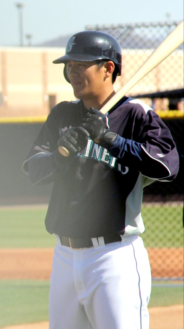 Cory Snyder and Chih-Hsien Chiang in 2012 Spring Training